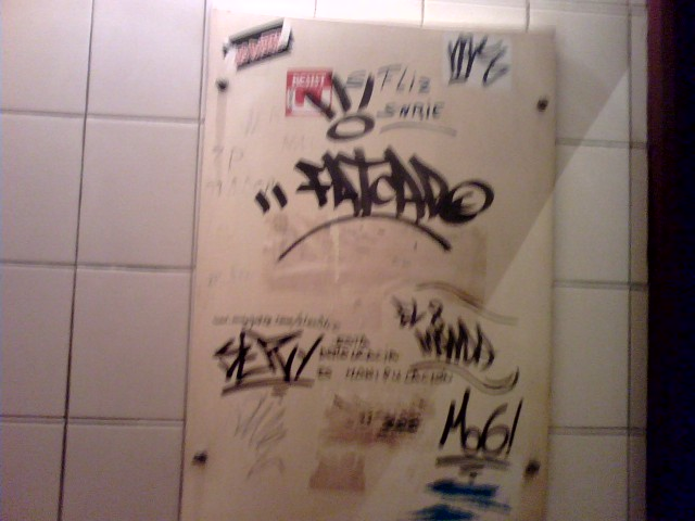 Picture of a public closet in Valladolid. Was sought as the perfect symbol of vandalism by a rendez-vous of Wikipedians.